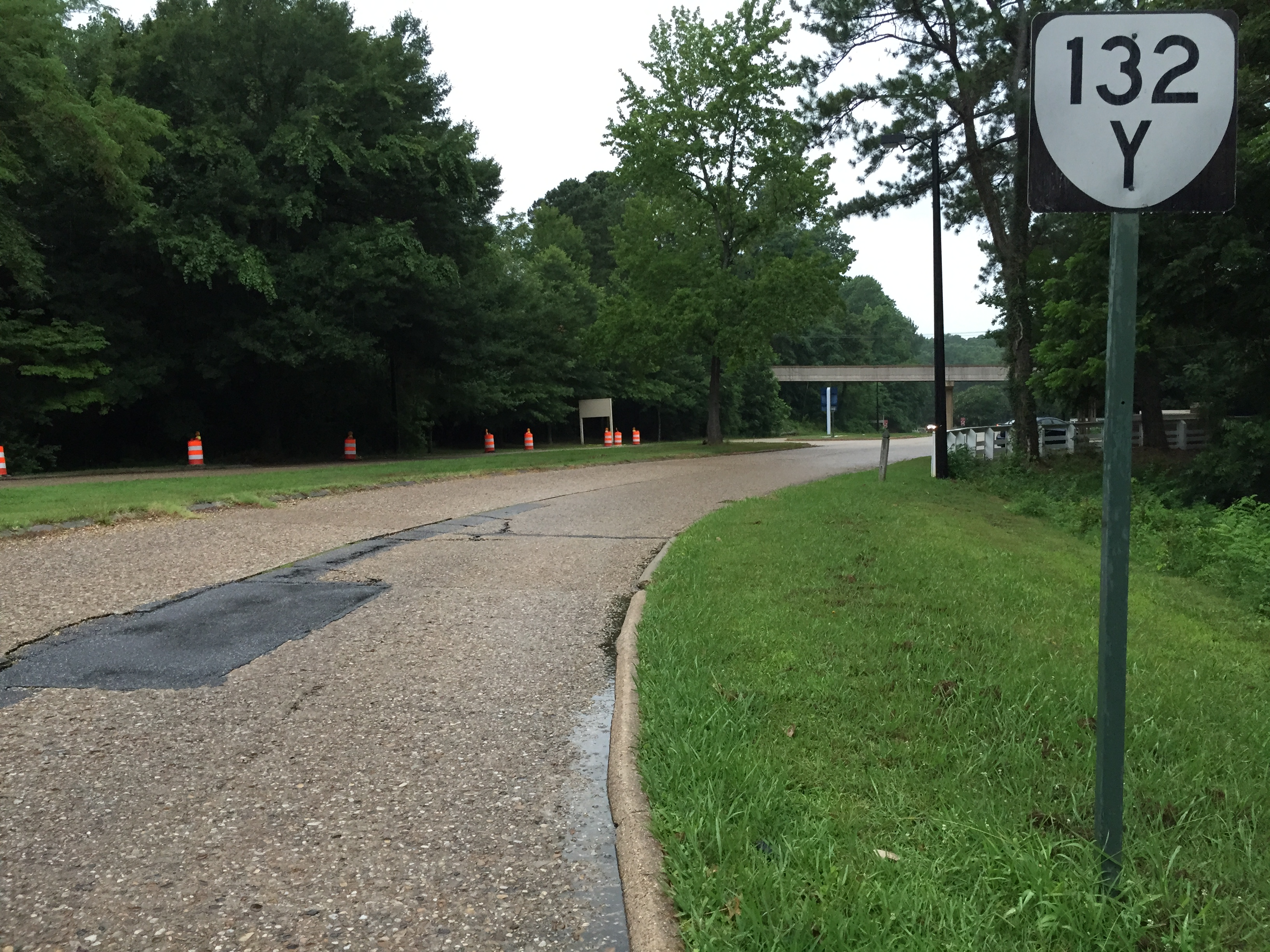 View north along Virginia State Route 132Y (Visitor Center Drive) at the junction with the Colonial Parkway in Williamsburg, Virginia